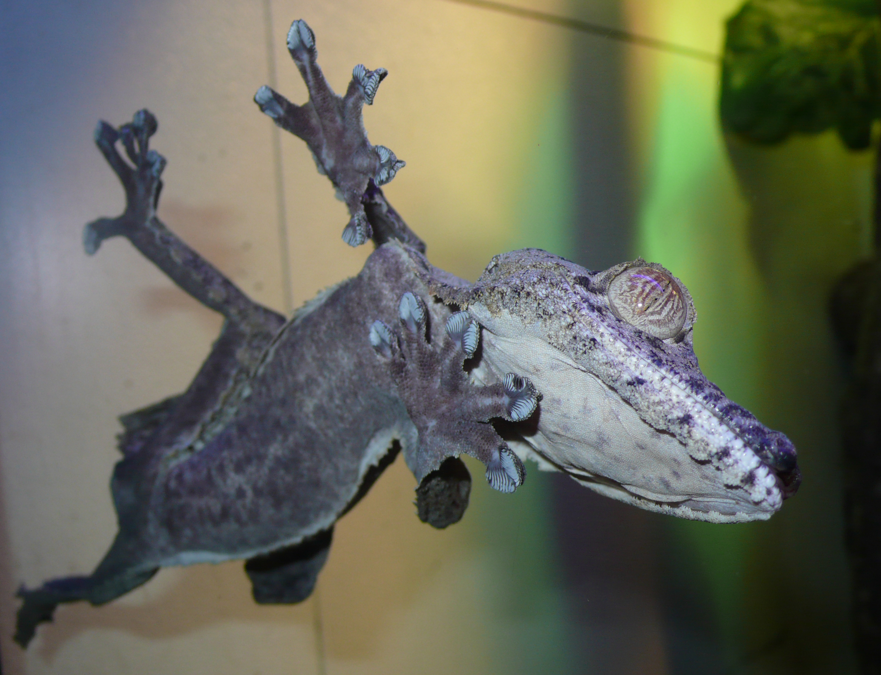 Giant leaf-tail gecko Uroplatus fimbriatus clinging to glass